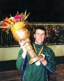 Mitko Stojkovski winner of the Macedonian Cup with FK Pelister in 2001